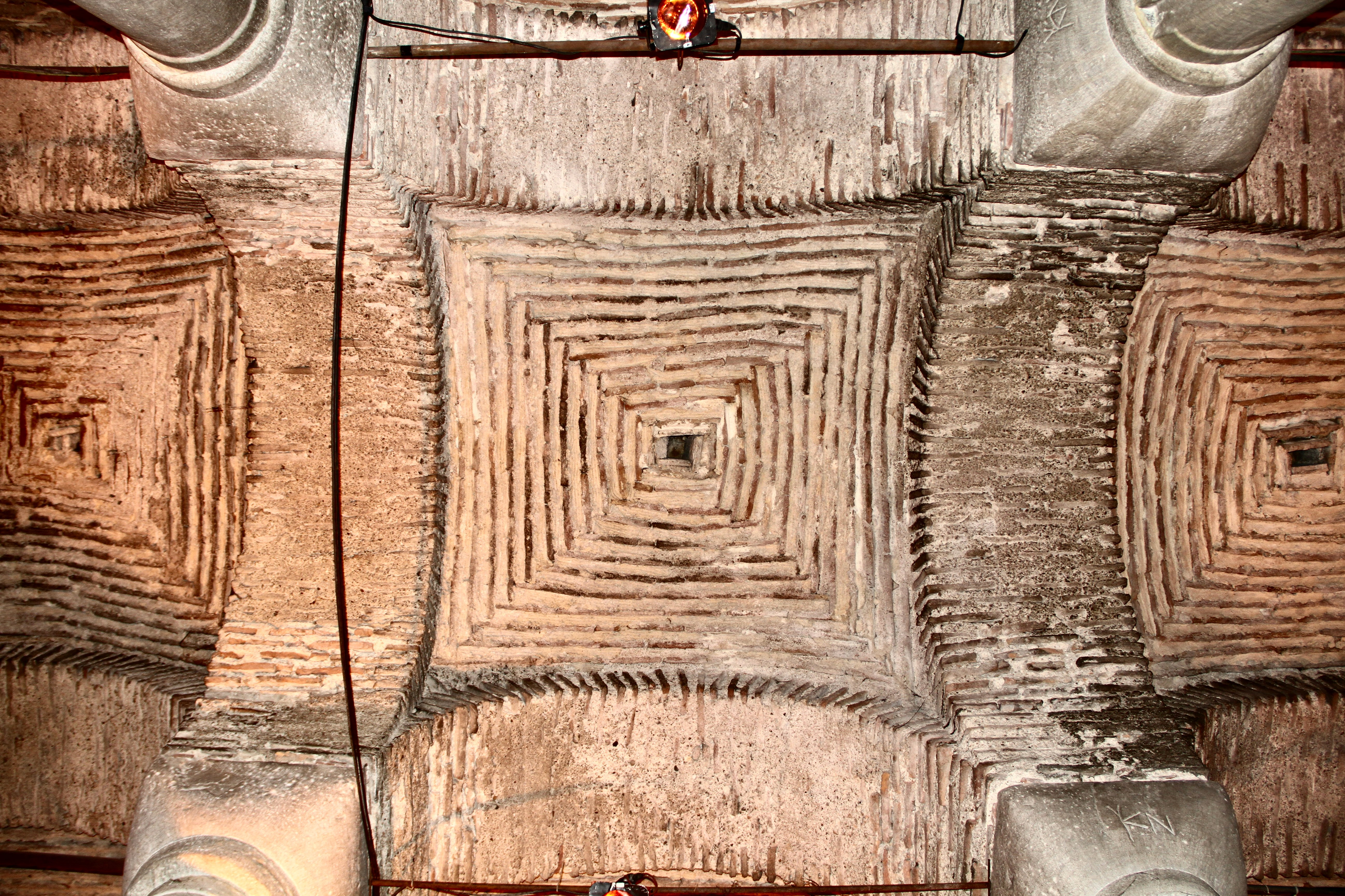 Brick vaulted roof of the Byzantian Philoxenos cisterns (Binbirdirek Sarnici), 4th century CE. See more at : Taken at Istanbul, May 2011